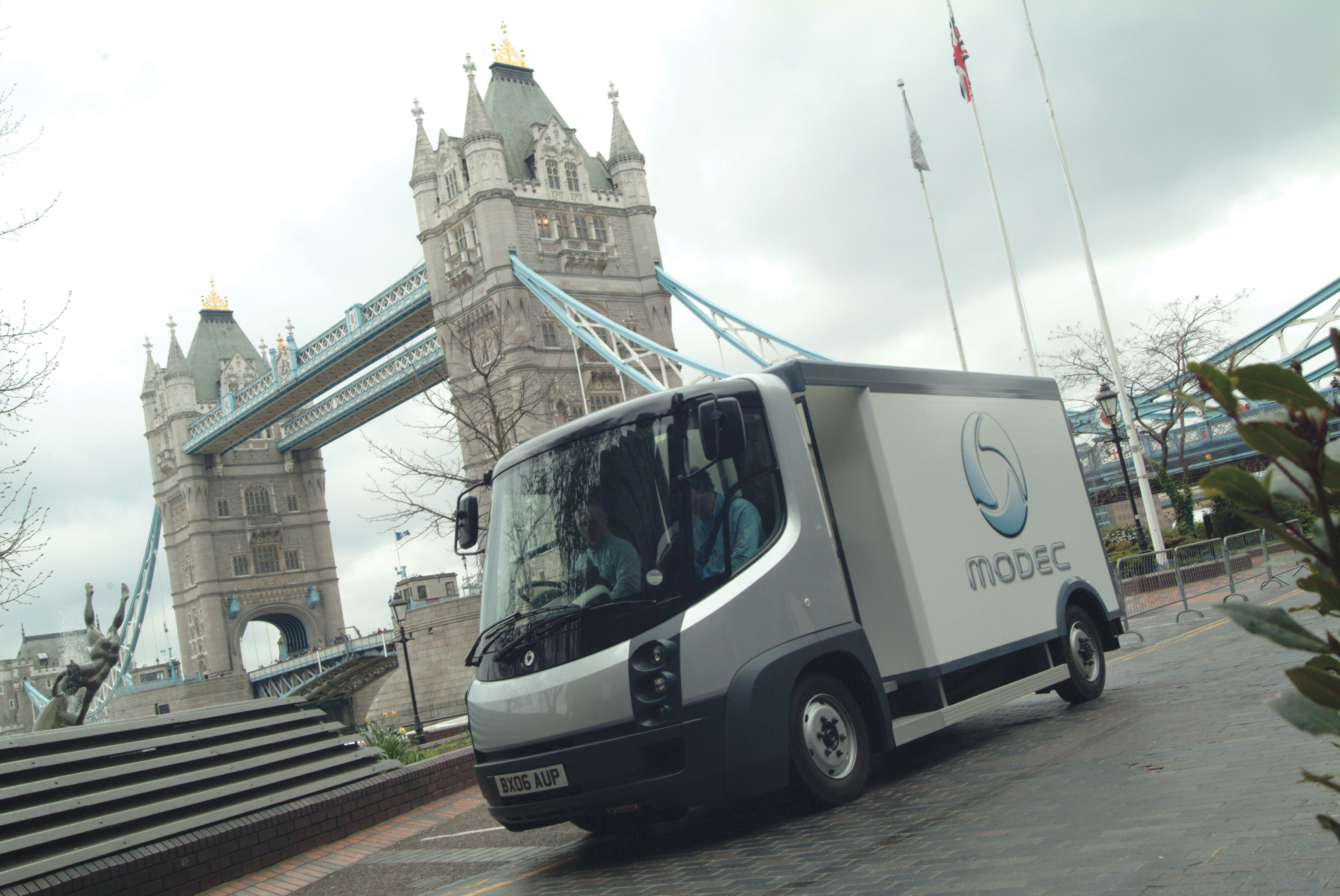 Image commissioned by Modec, taken in April 2006 Copyright formally assigned to Modec Limited, licensed for use under GFDL by Trevor Power, a duly authorised officer of the company.